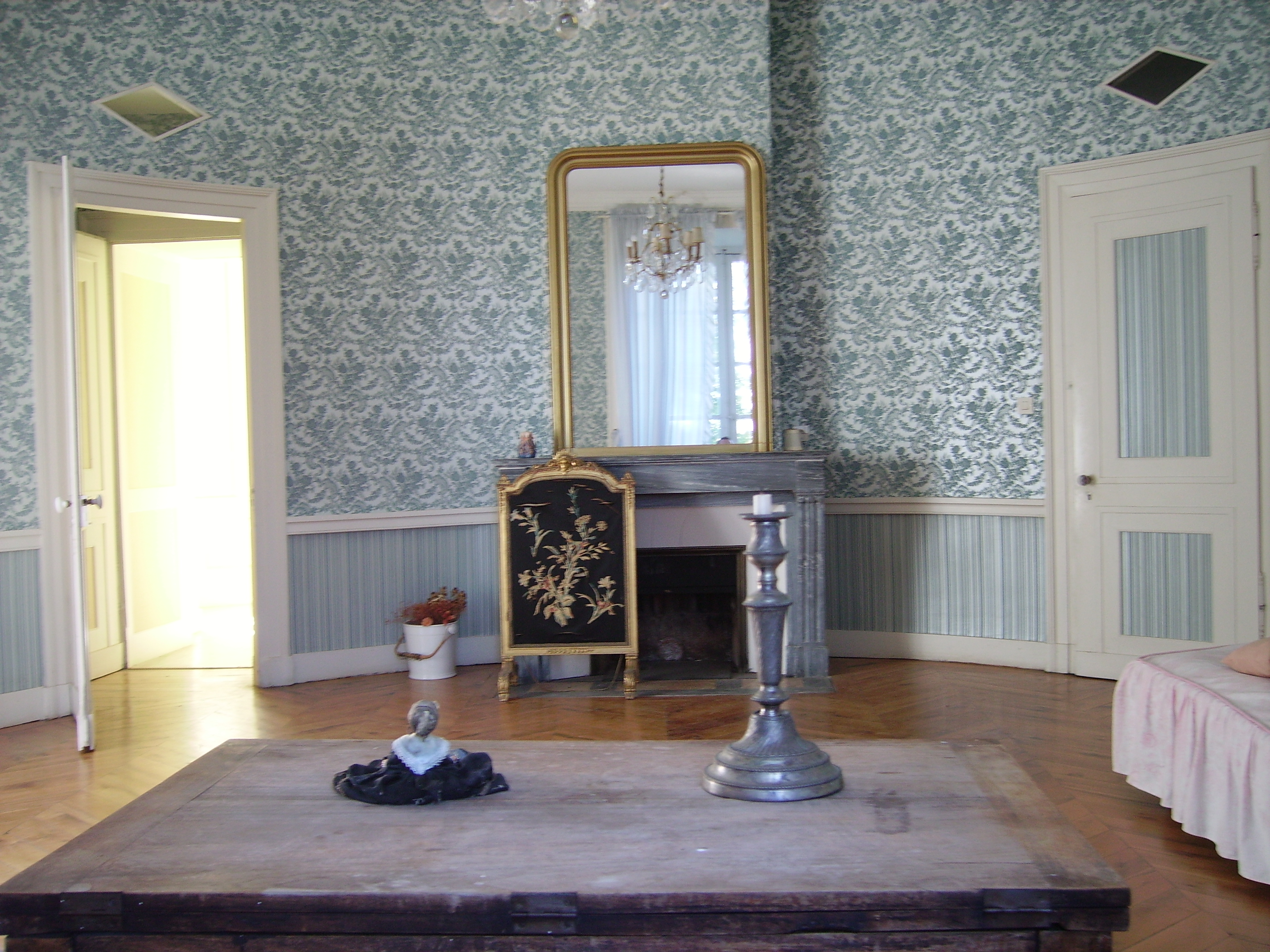 A view on the round bedroom, the marquise's